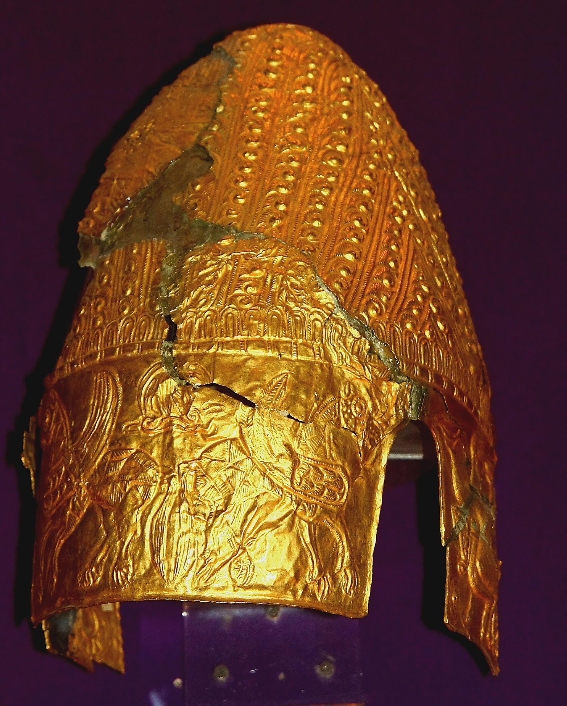 A Geto-Dacian helmet